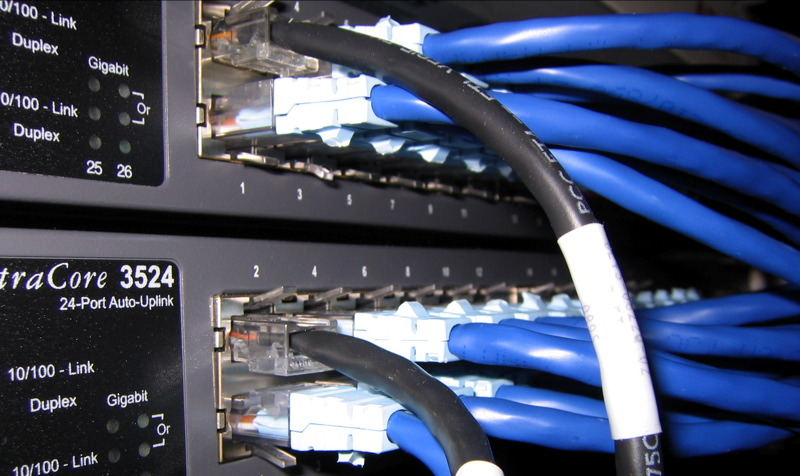 Connections on an Ethernet switch.